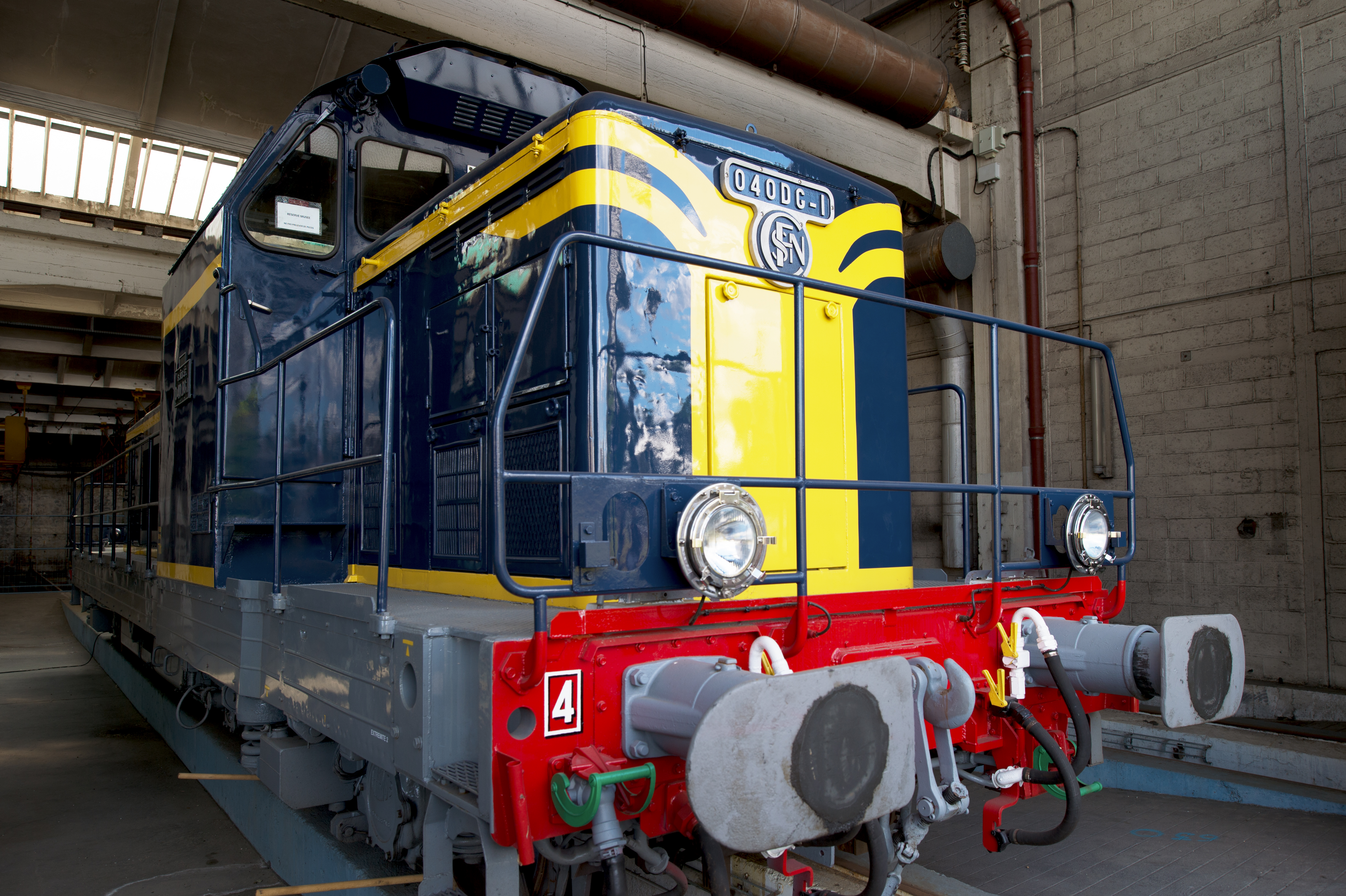 SNCF French railways locomotive 040DG